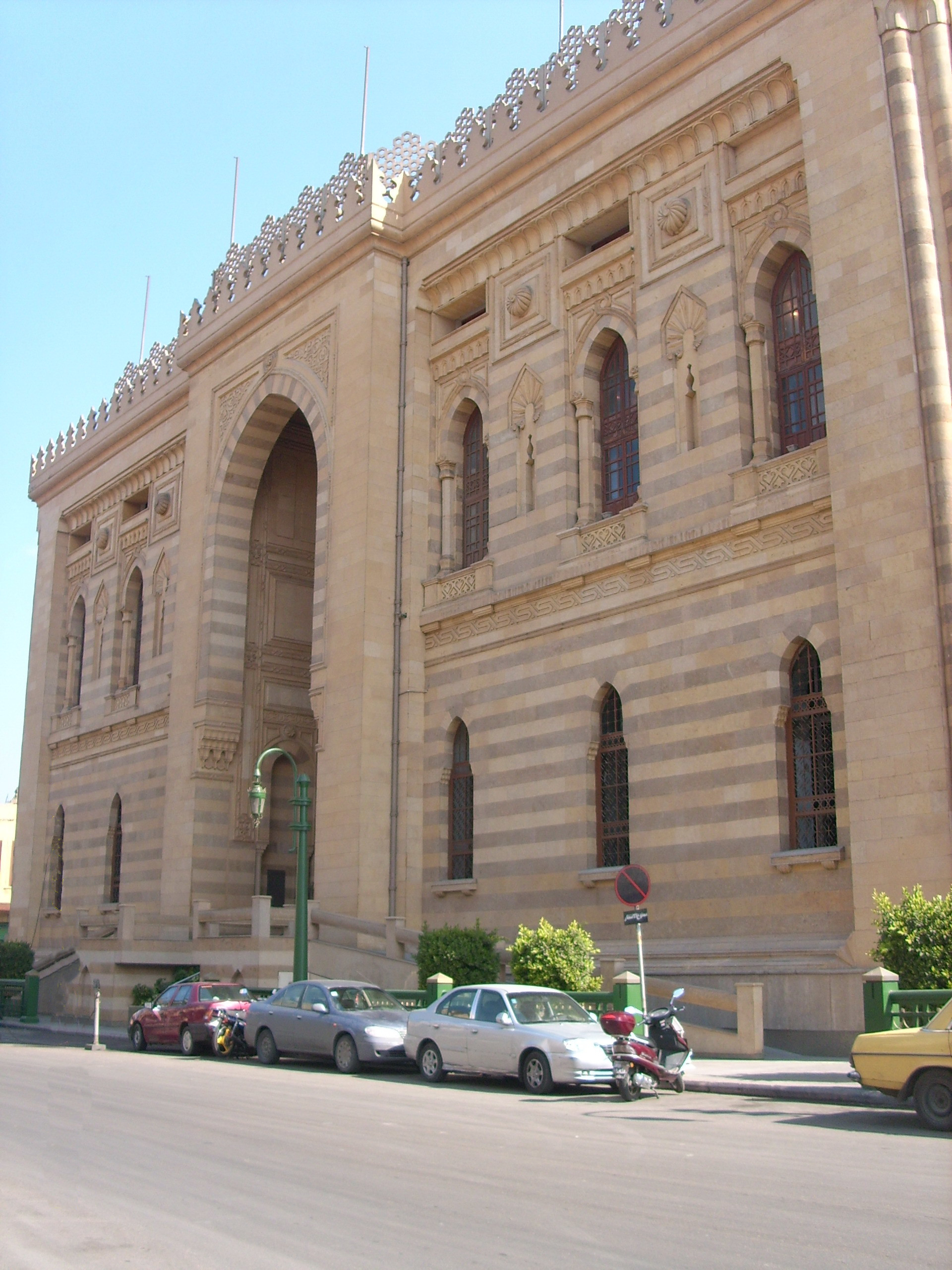 Dar Al-Kottob Al-Masryyia - Bab al-Khalq - Cairo